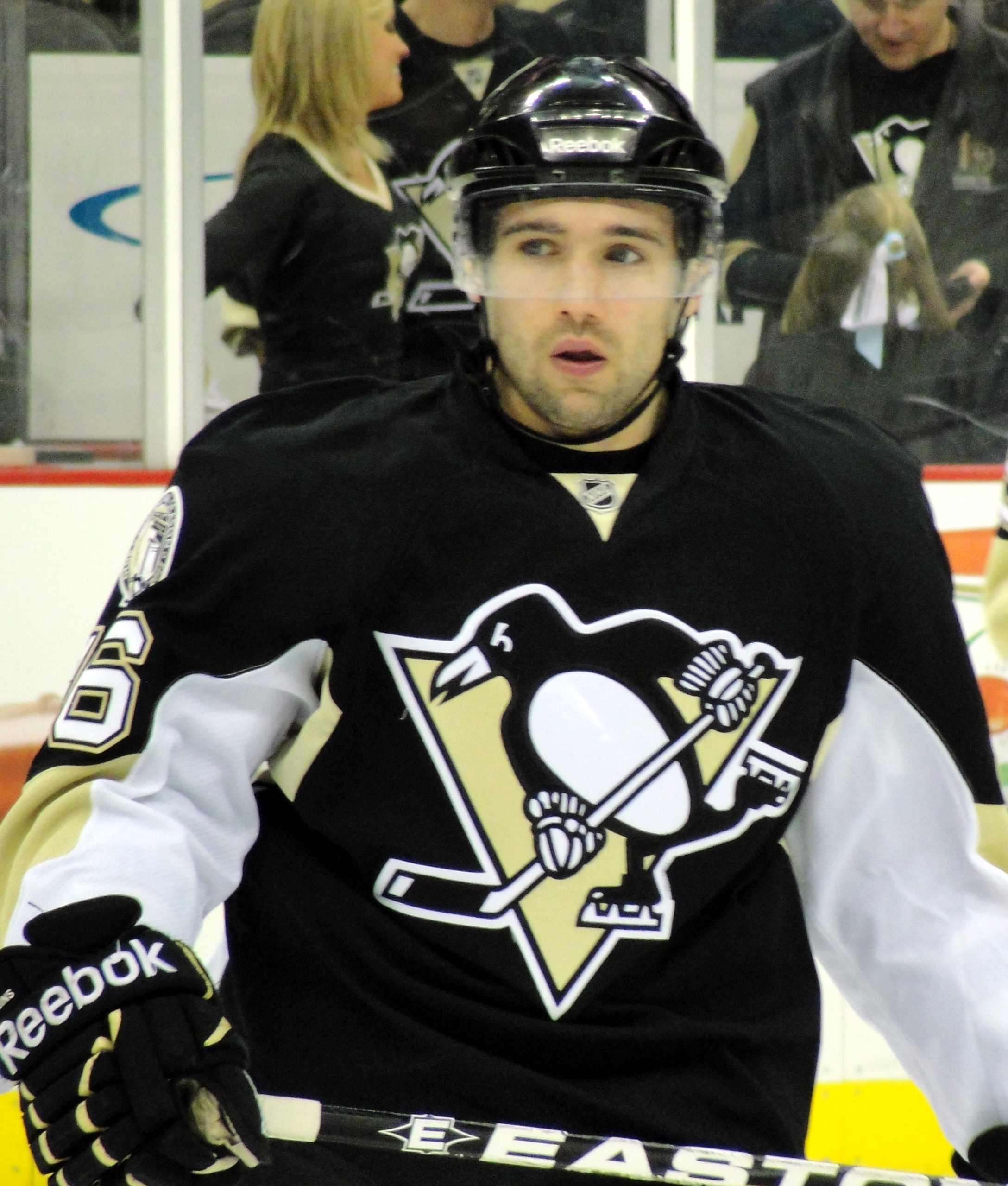 Chris Conner of the Pittsburgh Penguins during a March 20, 2011 game against the New York Rangers at Consol Energy Center in Pittsburgh, PA.